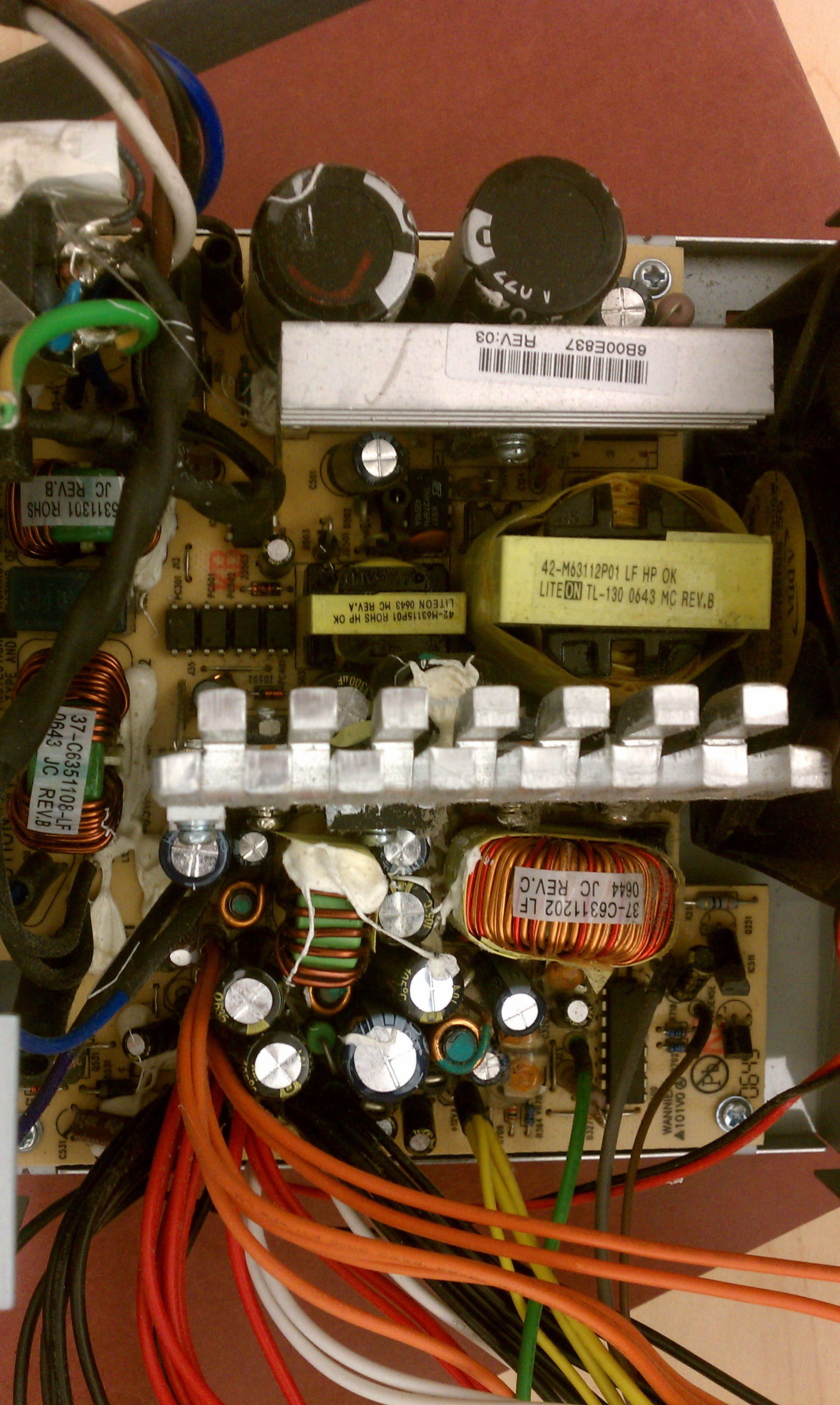 a closer look of the Internals of Power Supply